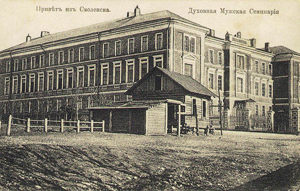 The building of the Smolensk Theological Seminary (now owned by the Ministry of Defense and located at a military camp on the street RWC).